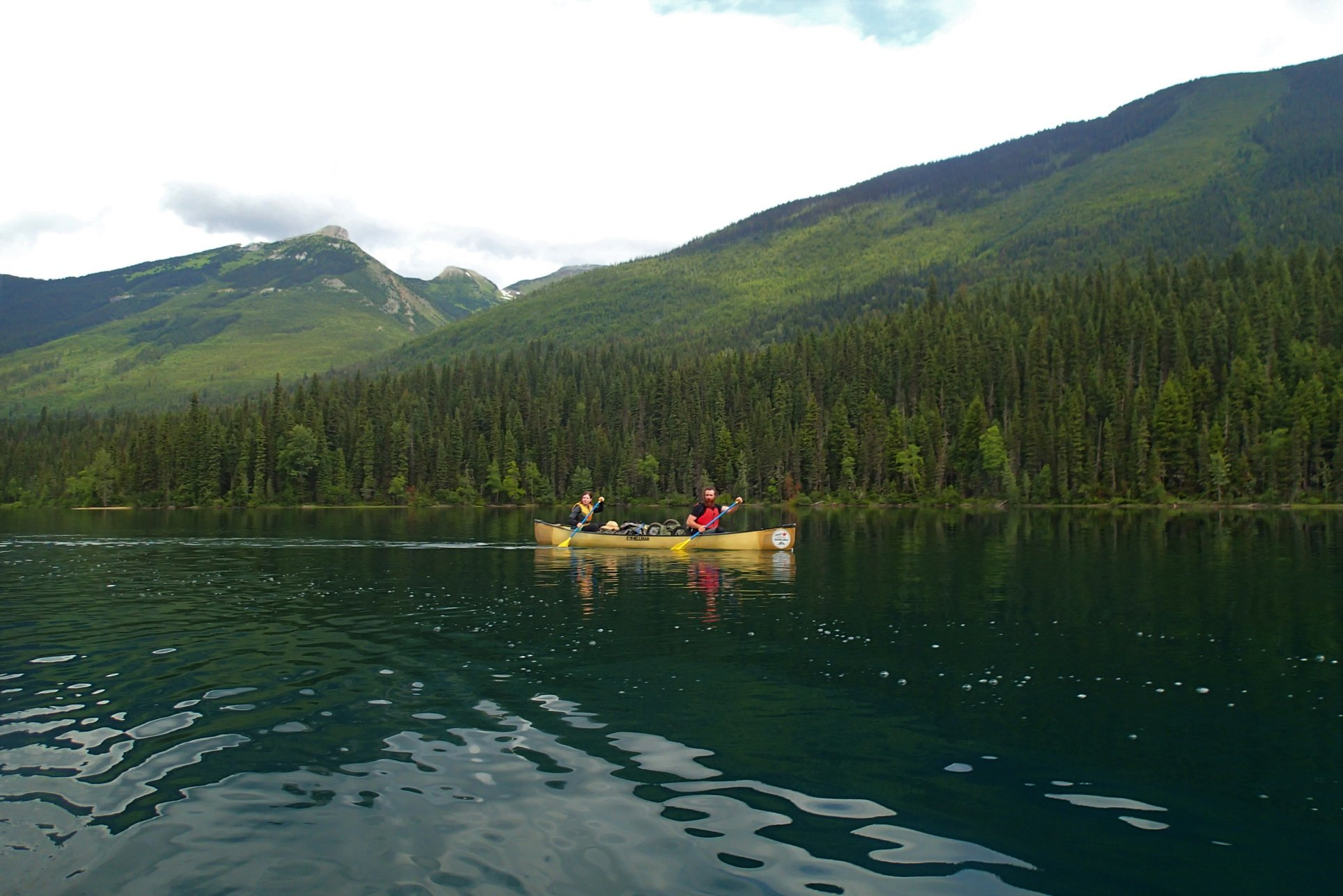 Two paddlers in a canoe in Bowron Lake Provincial Park, Cariboo mountains in background